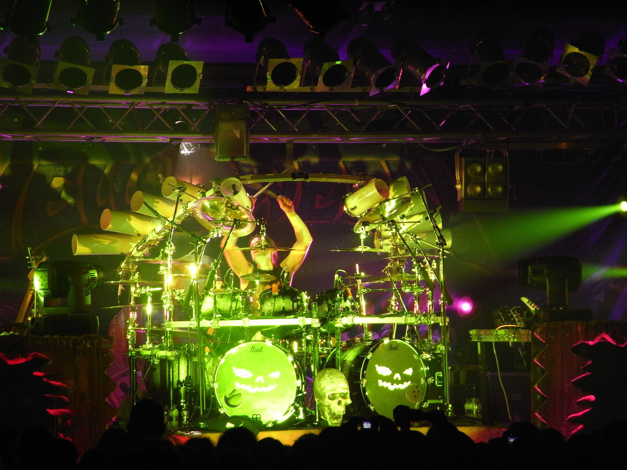 Daniel Löble, drummer of Helloween. Gambling with the Devil Toor. Rock Star Live-Megapark, Baracaldo (Spain)